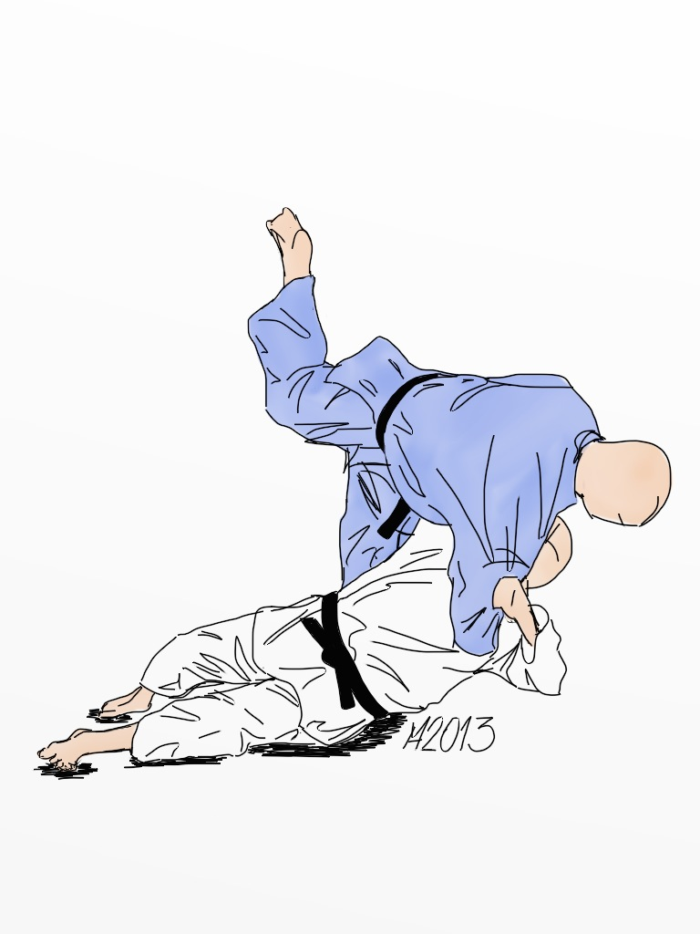 Illustration of the judo technique yoko-wakare, or side-separation where you sacrifice yourself in front of your opponent to throw them over your body.